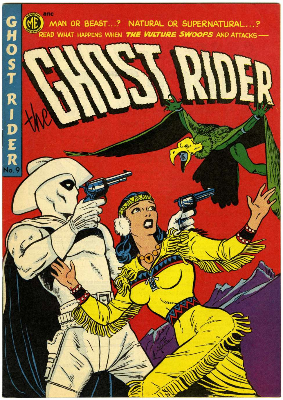 Comic book cover of The Ghost Rider 9 [A-1 #67] Oct. 1952